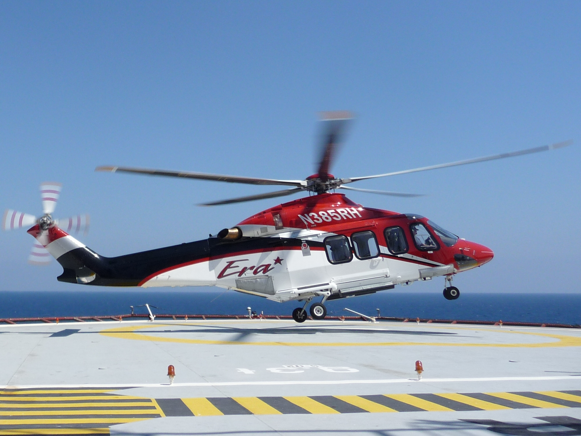 AgustaWestland AW139